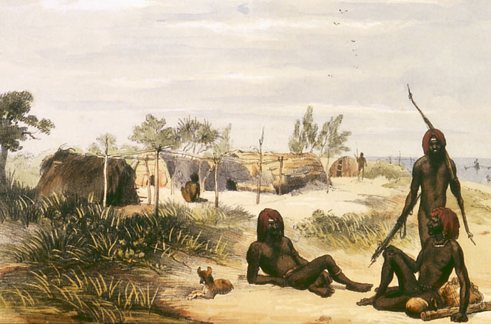 Ethnoarchitectural forms constructed by the Torres Strait islanders on the exposed beaches and cays at Mt Ernest Island (Naghi or Nagheer). Pl. no. XVI of: Sketches in Australia and the adjacent islands by Harden S. Melville. Tinted lithograph with some hand colouring. London: Printed and published by Dickinson & Co. c 1849